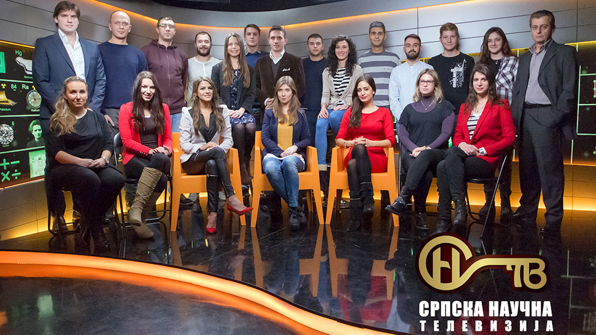 The team of the Serbian Scientific Television in their studio. Srpski (latinica): Tim Srpske naučne televizije u studiju.